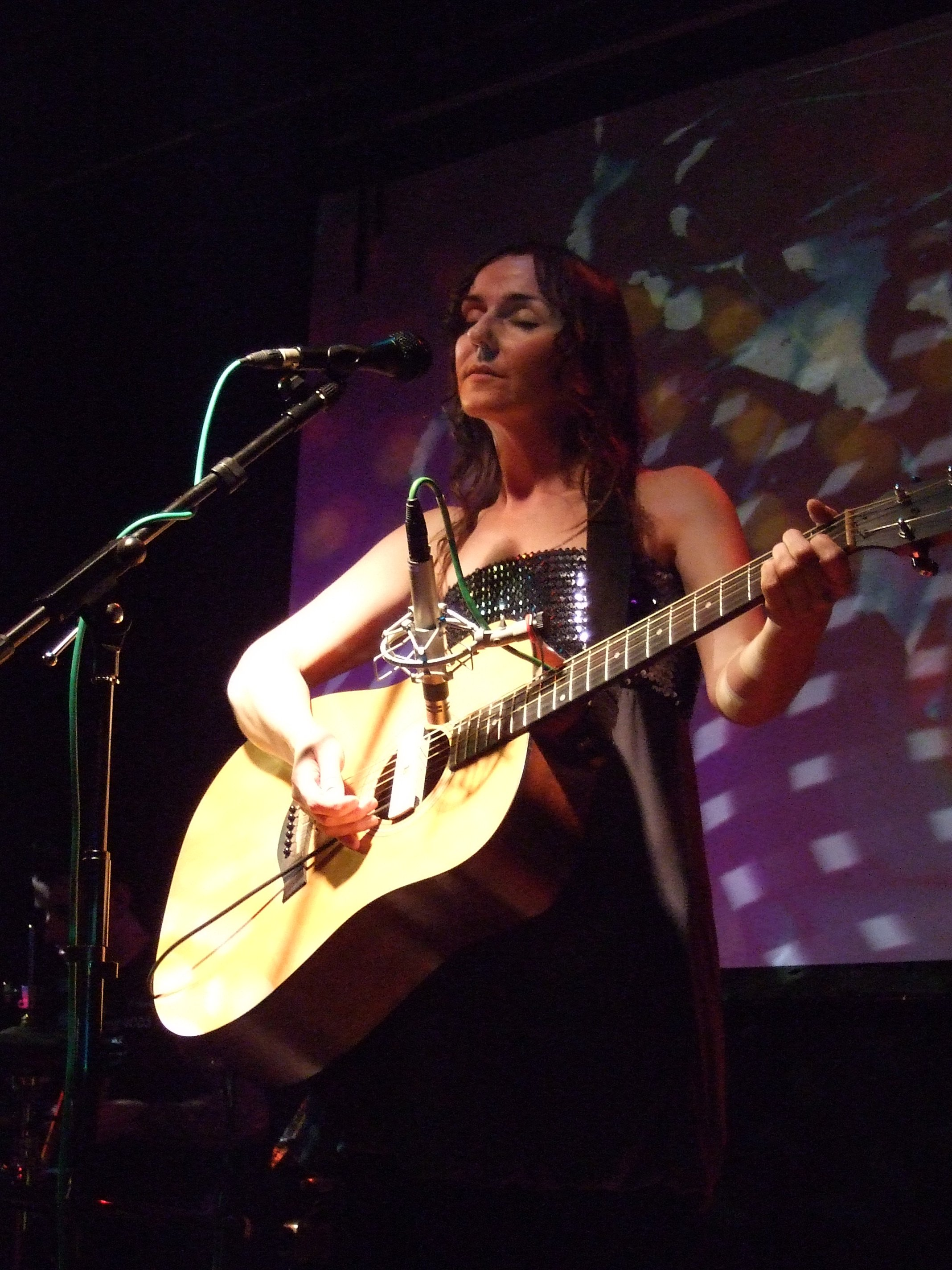 Alison Jane Shaw, vocalist for the English psychedelic band Cranes